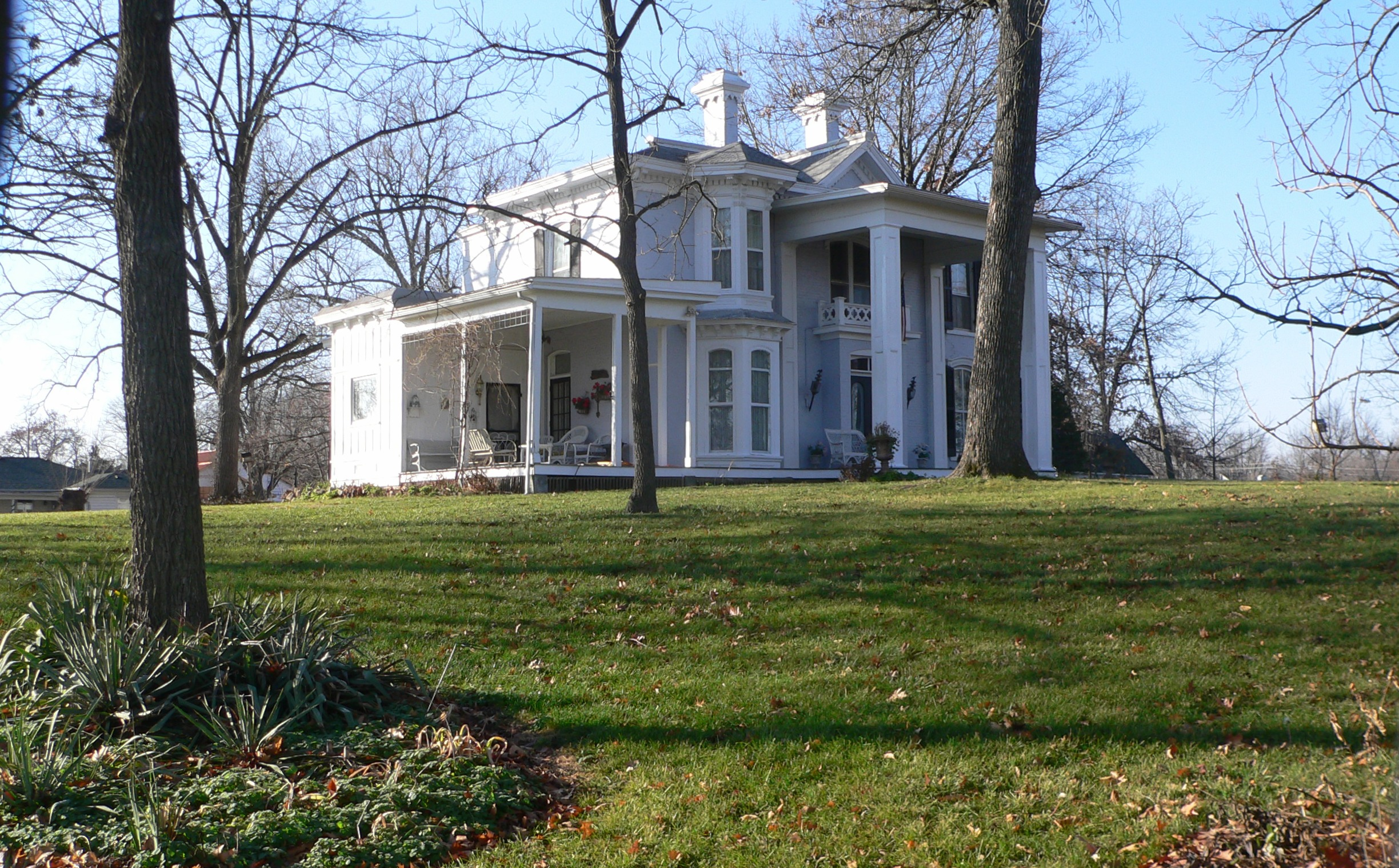 John Augustus Hockaday house, located at 105 Hockaday Avenue in Fulton, Missouri; seen from the northeast.